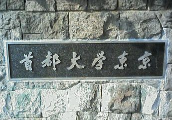 Signboard of Tokyo Metropolitan University -Shuto Daigaku Tokyo-,Tokyo,Japan